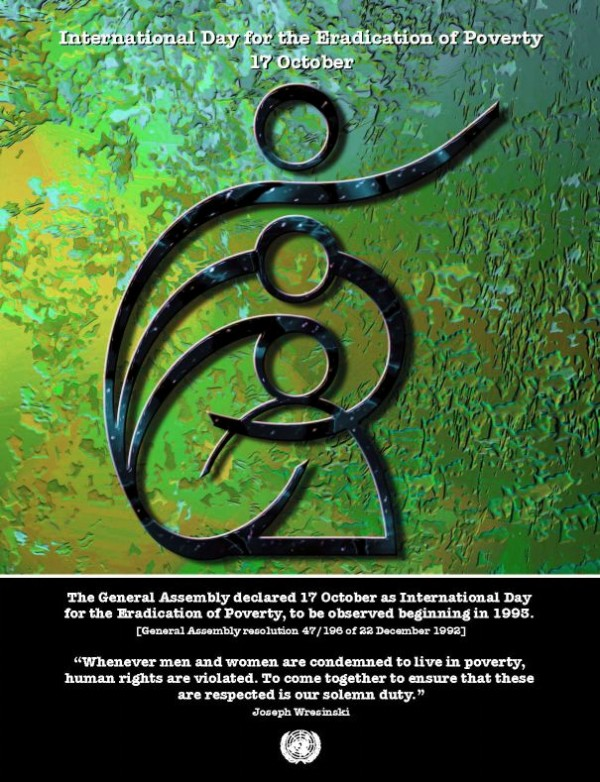 A design for Int'l Day for Eradication of Poverty in Ukraine